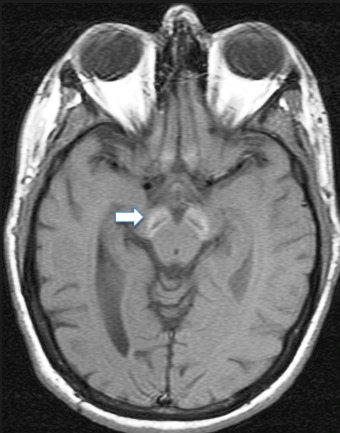 T1 weighted MRI image of a brain of a patient affected by BPAN (Beta-propeller protein associated neurodegeneration) that demonstrates the hyperintense halo surrounding a central linear band of hypointensity in the substantia nigra and cerebral peduncles (arrow).